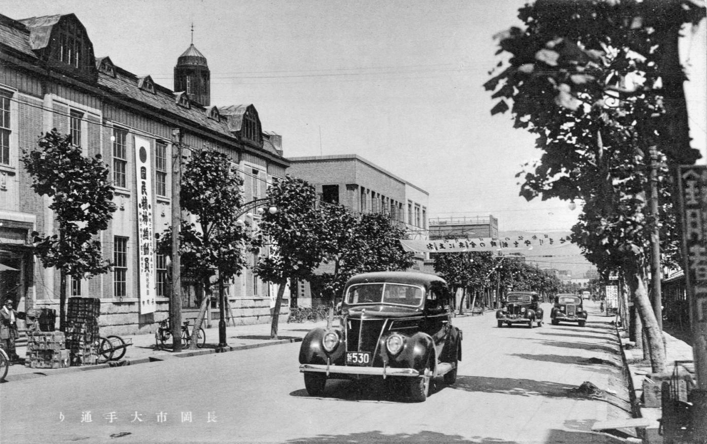 Postcard of Ōte-dōri, Nagaoka in the early Shōwa era